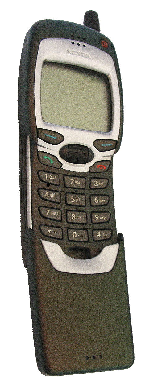 Mobile Phone Nokia 7110 with transparent background